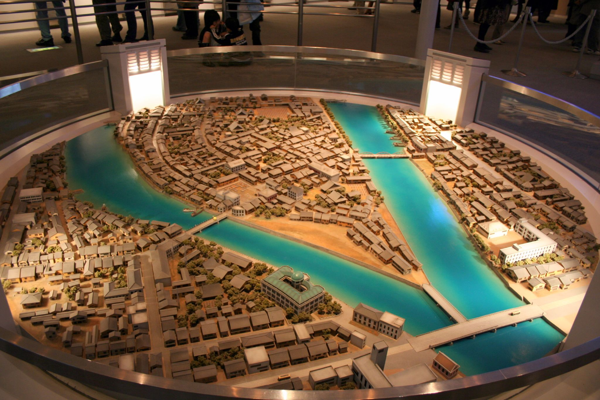 Scaled down model of Hiroshima City before the atomic bomb explosion, Hiroshima Peace Memorial Museum